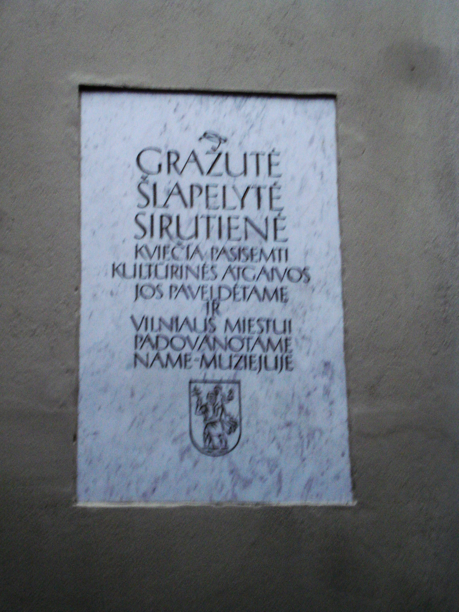 Memorial tablet in the courtyard of the Marija and Jurgis Šlapelis House in Vilnius (Pilies g. 40)